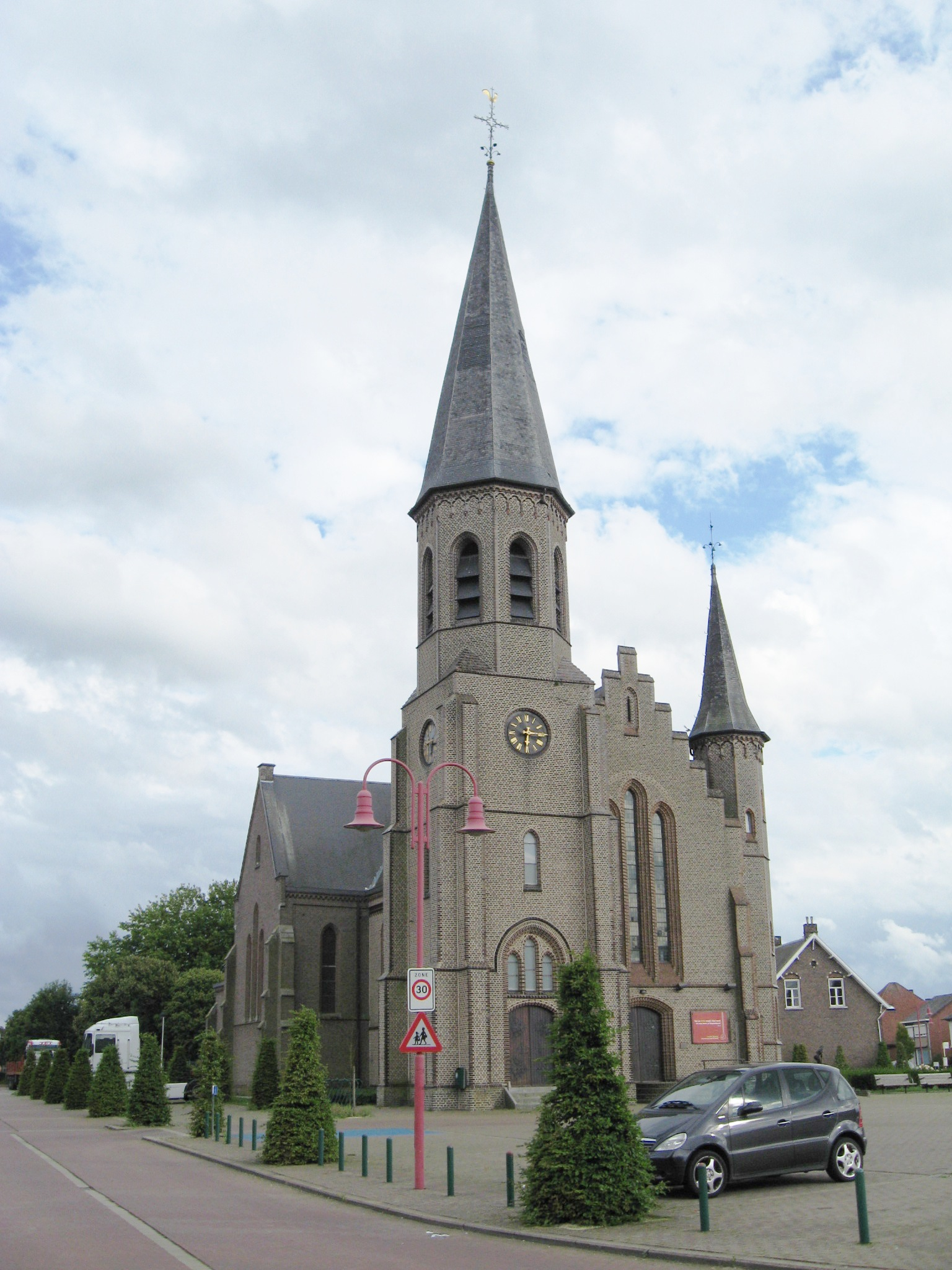 Church of Saint Benedict in Bocholt (Lozen), Limburg, Belgium